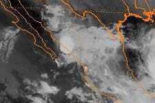 Image of Hurricane Debby becoming Tropical Depression 17E on September 7, 1988.